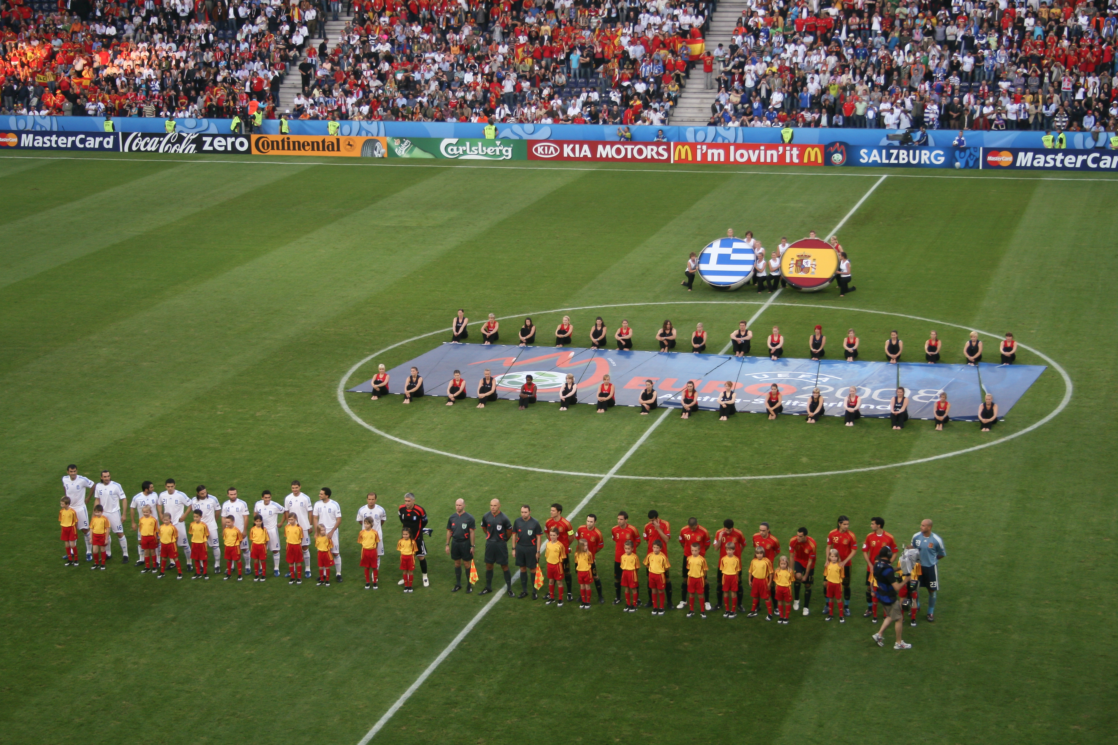 EM-Stadion Wals-Siezenheim in Salzburg during UEFA Euro 2008